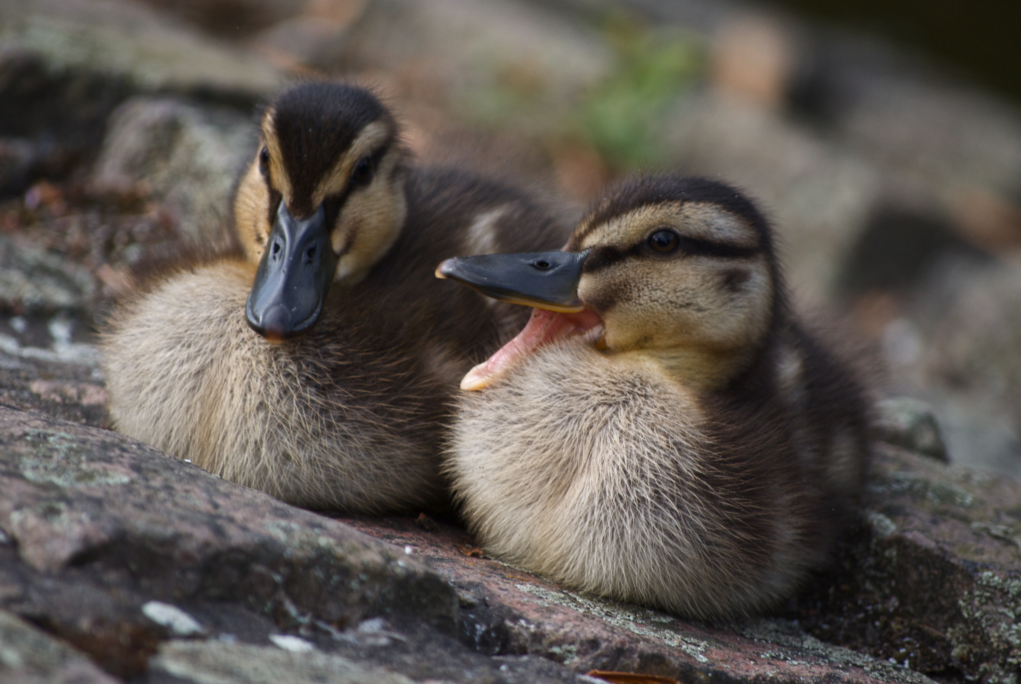 Two Mallard ducklings (Anas platyrhynchos) at the University of Warwick.